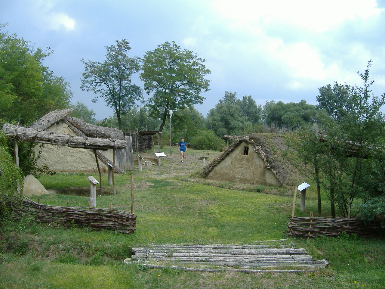 Reconsturcted Árpádian Village in Tiszaalpár